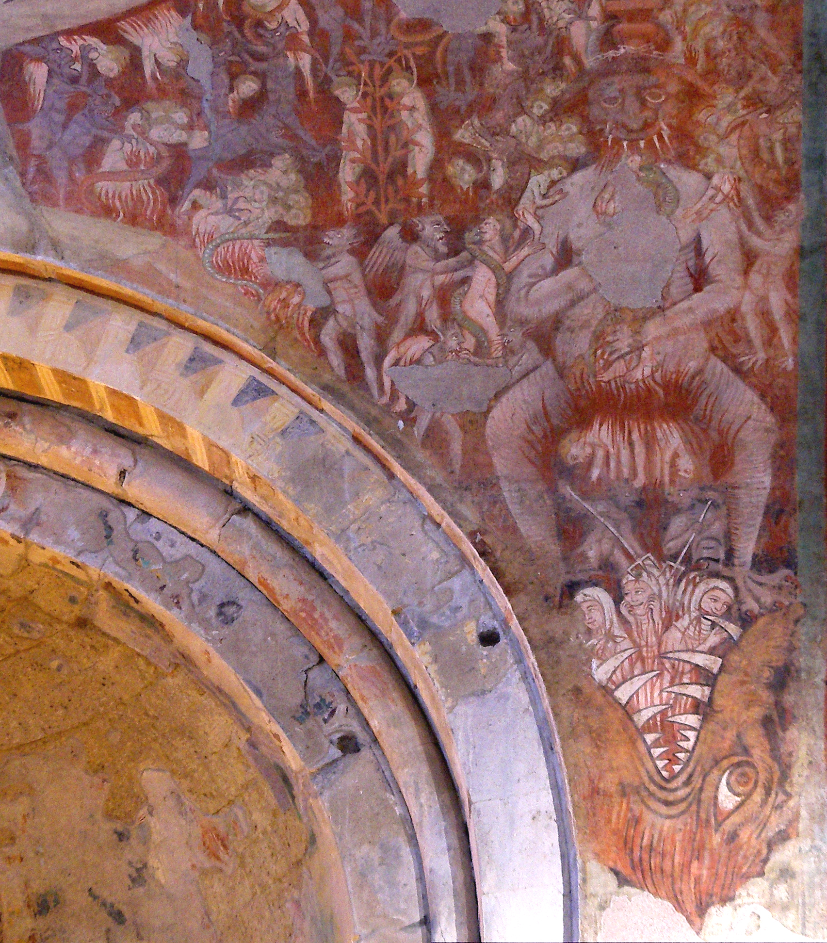 Fresco of Last Judgment in Santa Maria Maggiore, Tuscania, Italy